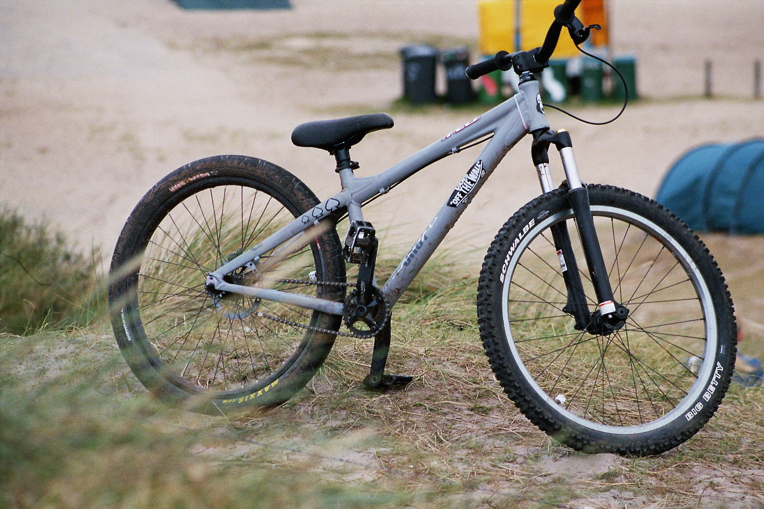 placed at the camp ground near Westerland, isle of Sylt, Germany